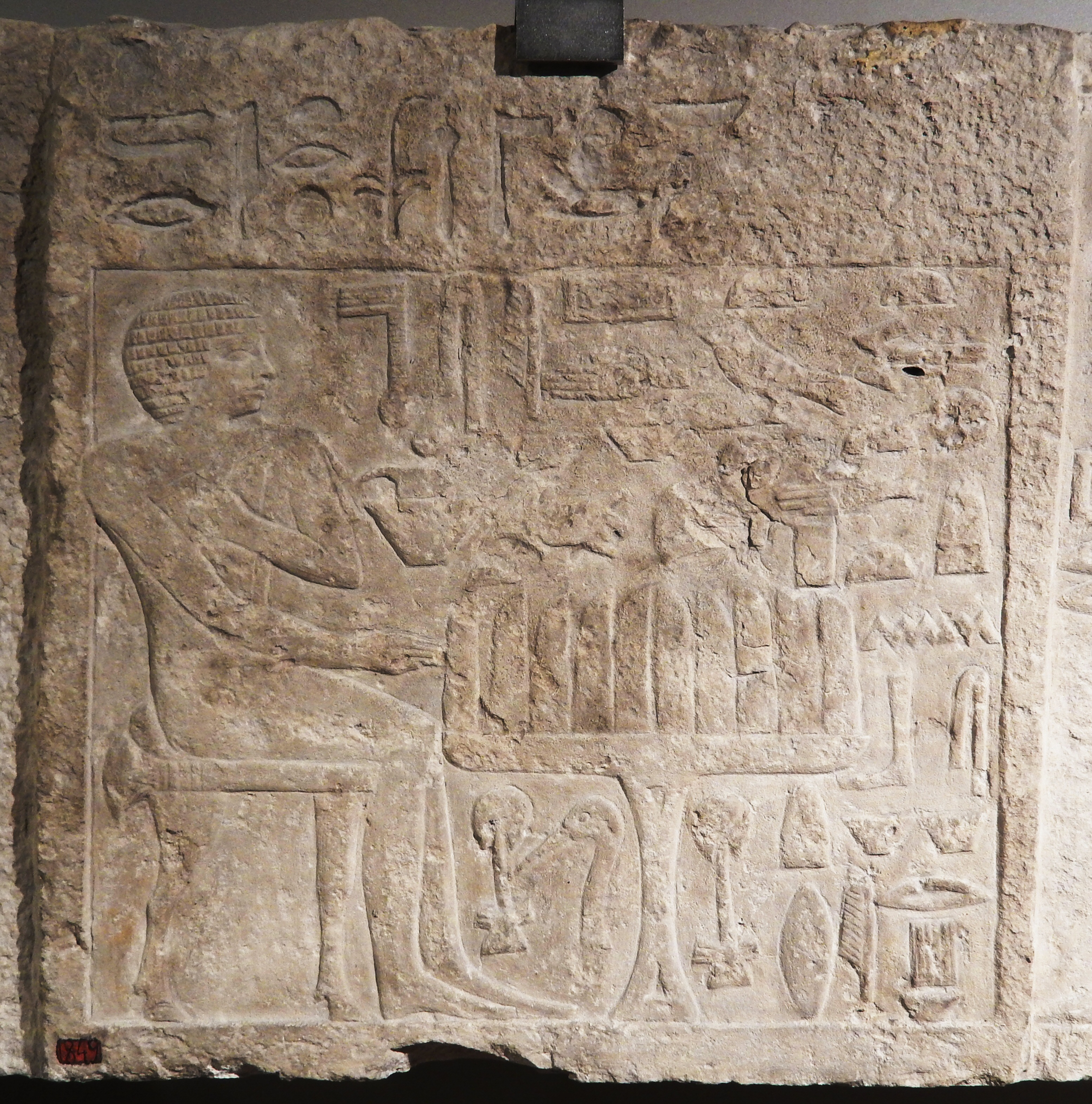 Slab stele from mastaba tomb of Itjer at Giza. 4th Dynasty, 2543-2435 BC. Itjer is seated at a table with slices of bread, shown vertical by convention. Other offerings described in the text near the table are incense, fruit, and wine. Excavations 1903 by Schiaparelli, S. 1849. Egyptian Museum, Turin.